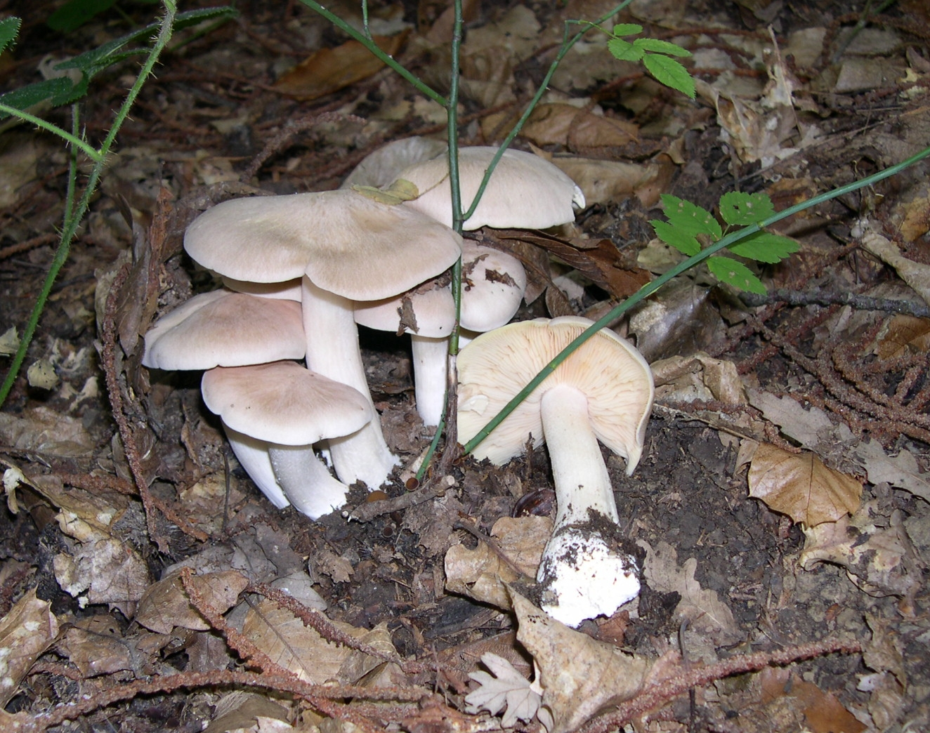 Entoloma sinuatum ex Entoloma lividum photo taken by Archenzo in an Italian wood Piacenza's Appennino on 17st September 2005